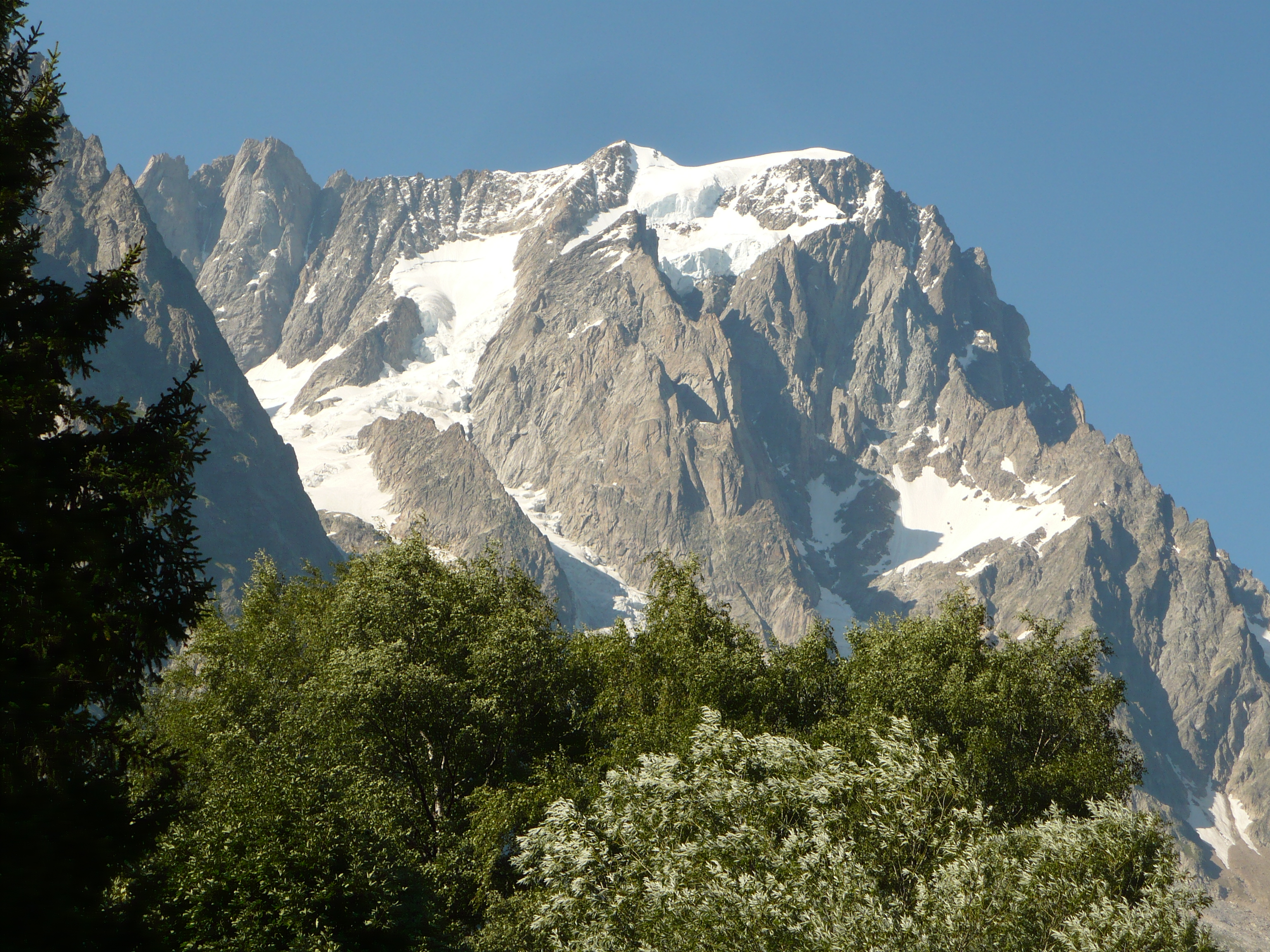 Grandes Jorasses - from Val Veny - Mont Banc Massif - Graian Alps